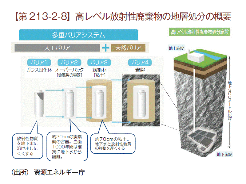 Geological disposal system of high level radioactive waste